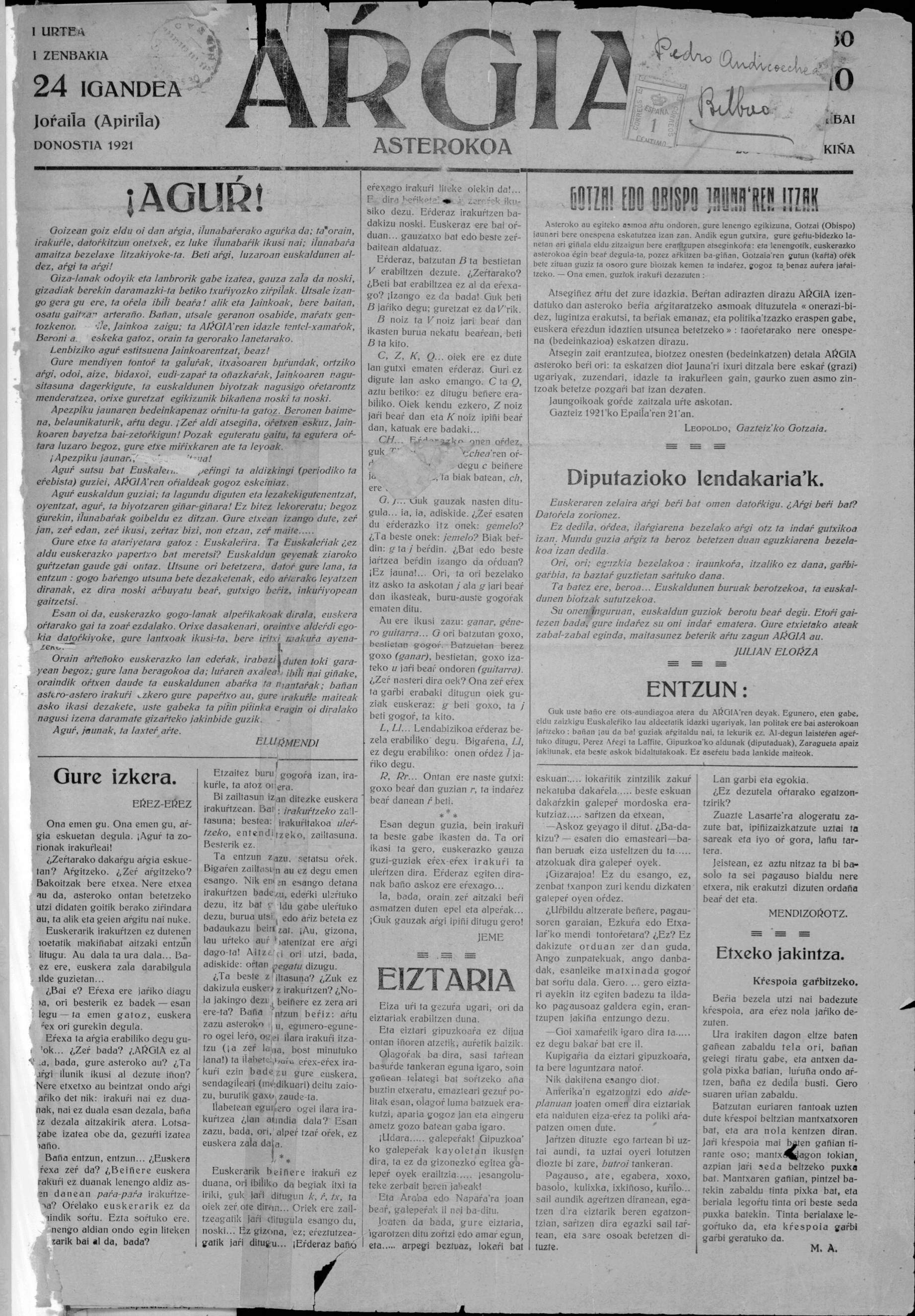 First number of Argia paper, longer existing basque magazine.